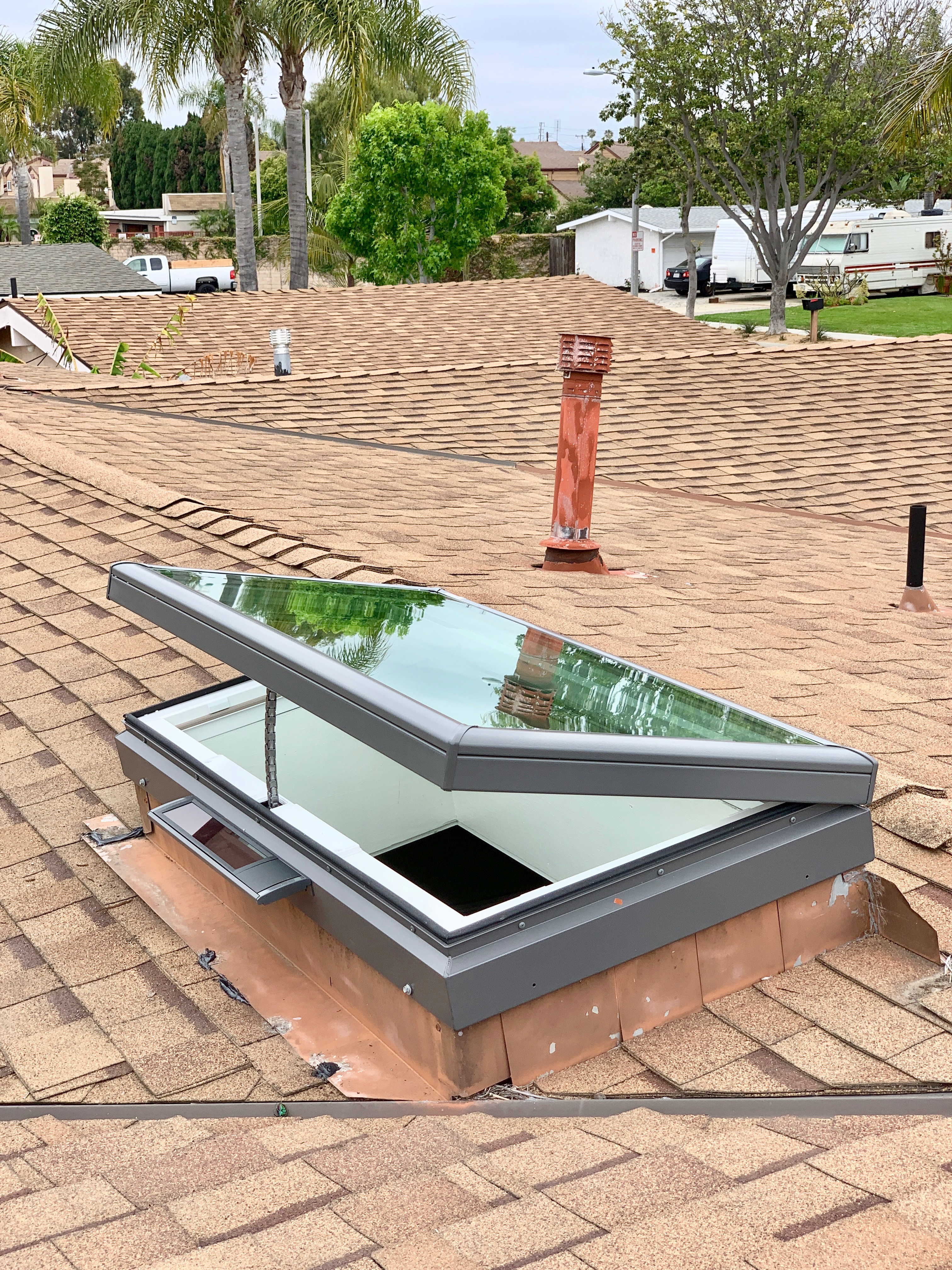 Venting flat glass skylight with an onboard battery recharged via solar panel. Solar venting skylights are operated with a remote control or wall-mounted switch and allow the venting of warm air from inside.